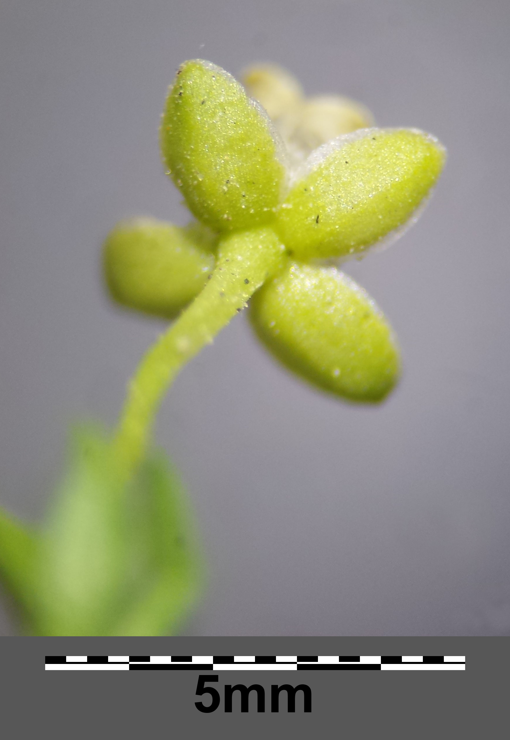 Obtuse sepals with thin white margins Taxonym: Sagina procumbens ss Fischer et al. EfÖLS 2008 ISBN 978-3-85474-187-9 Location: Rosenburg, district Horn, Lower Austria - ca. 260 m a.s.l. Habitat: gap in road surface